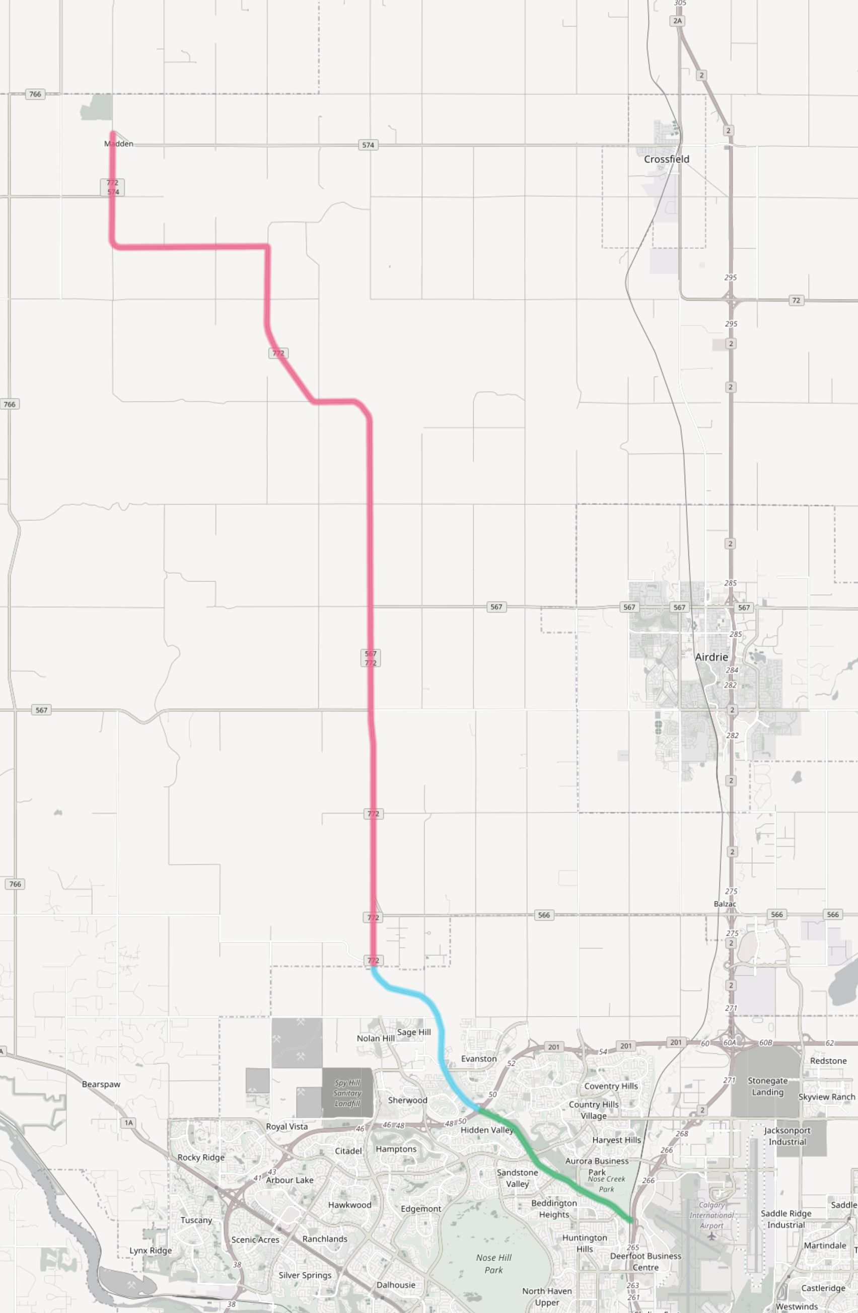 Combined map of Alberta Highway 772, Symons Valley Road, Beddington Trail.